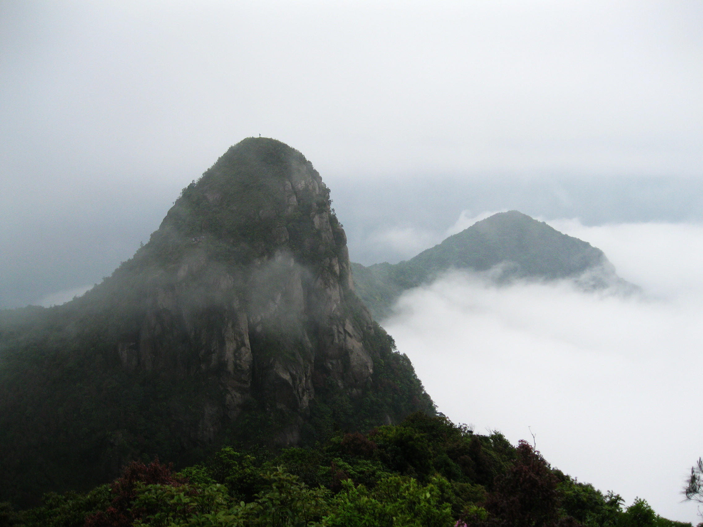 Jizhen Mountain is the second highest mountain in Guangzhou, China, with an altitude of 1,175 metres (3,855 ft), just 35 meters lower than Tiantang Peak.